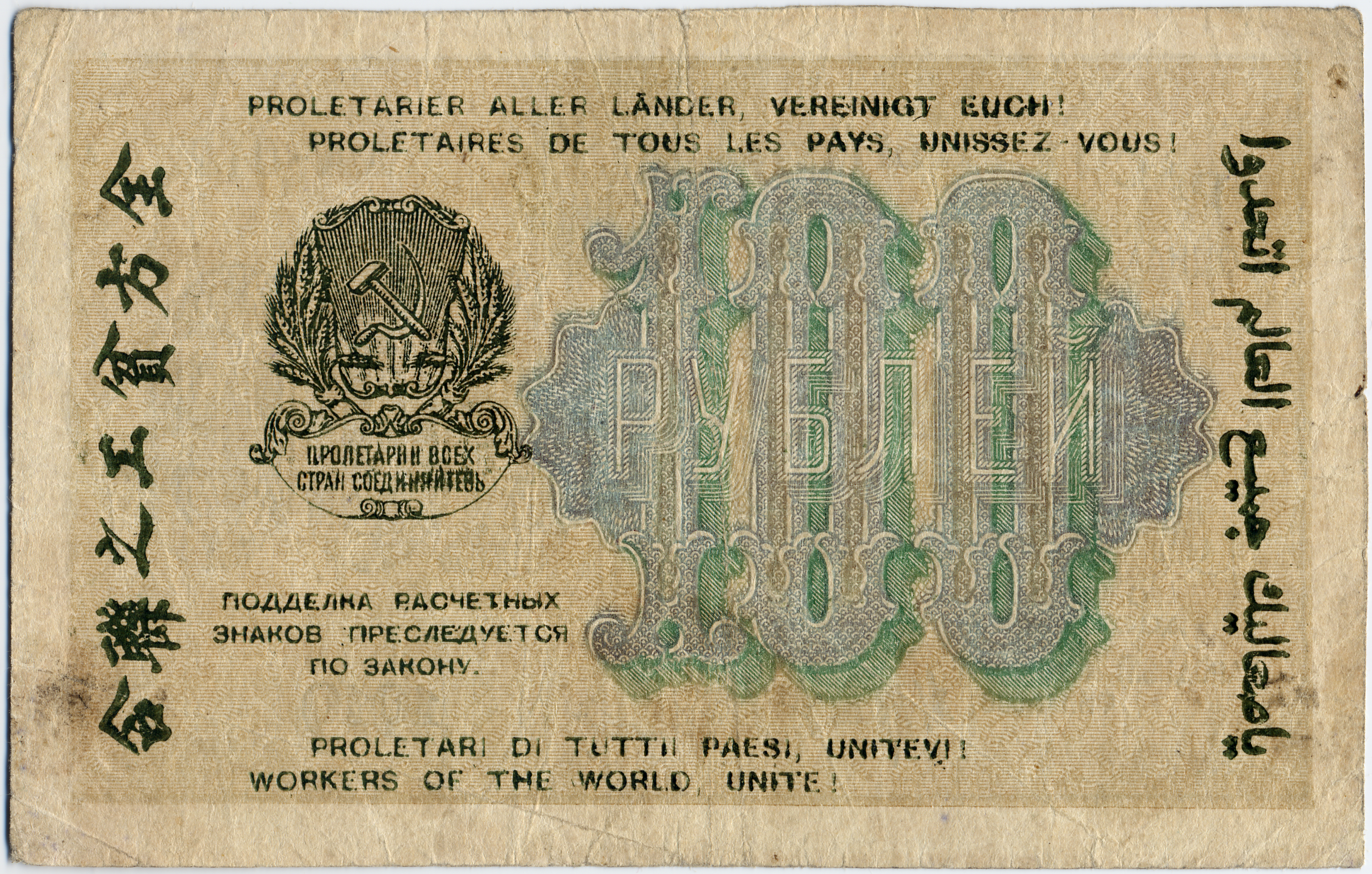 Russian Soviet Federative Socialist Republic banknote, 1919, 100 rubles, obverse.